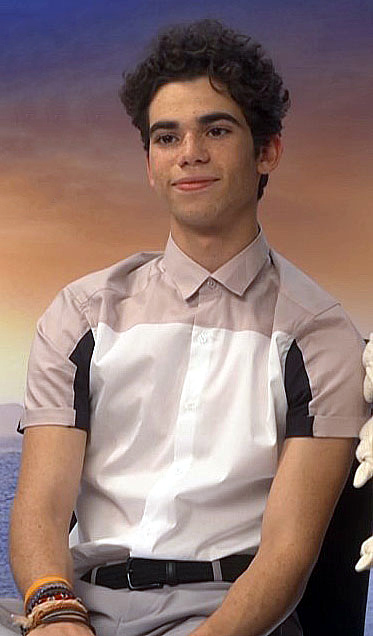 Cameron Boyce in October 2017